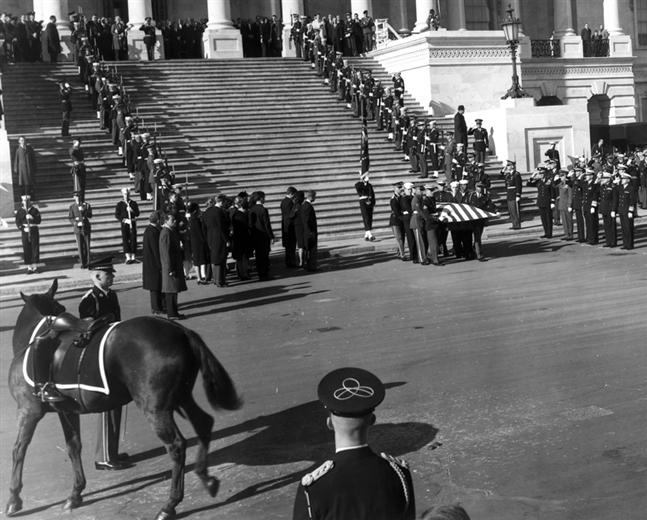 Flag-draped casket of President John F. Kennedy departs the East Front of the U.S. Capitol. The riderless horse 'Blackjack' with empty reversed boots, a tradition with roots in the Roman republic, is seen in lower left.